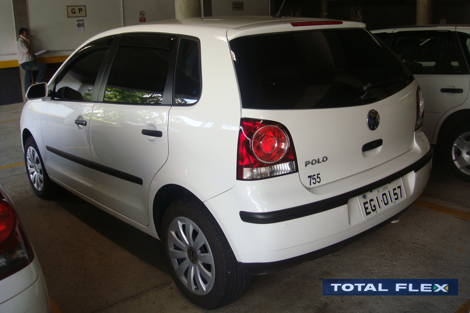 VW Polo Total Flex model year 2010. Jundiai, Sao Paulo, Brazil